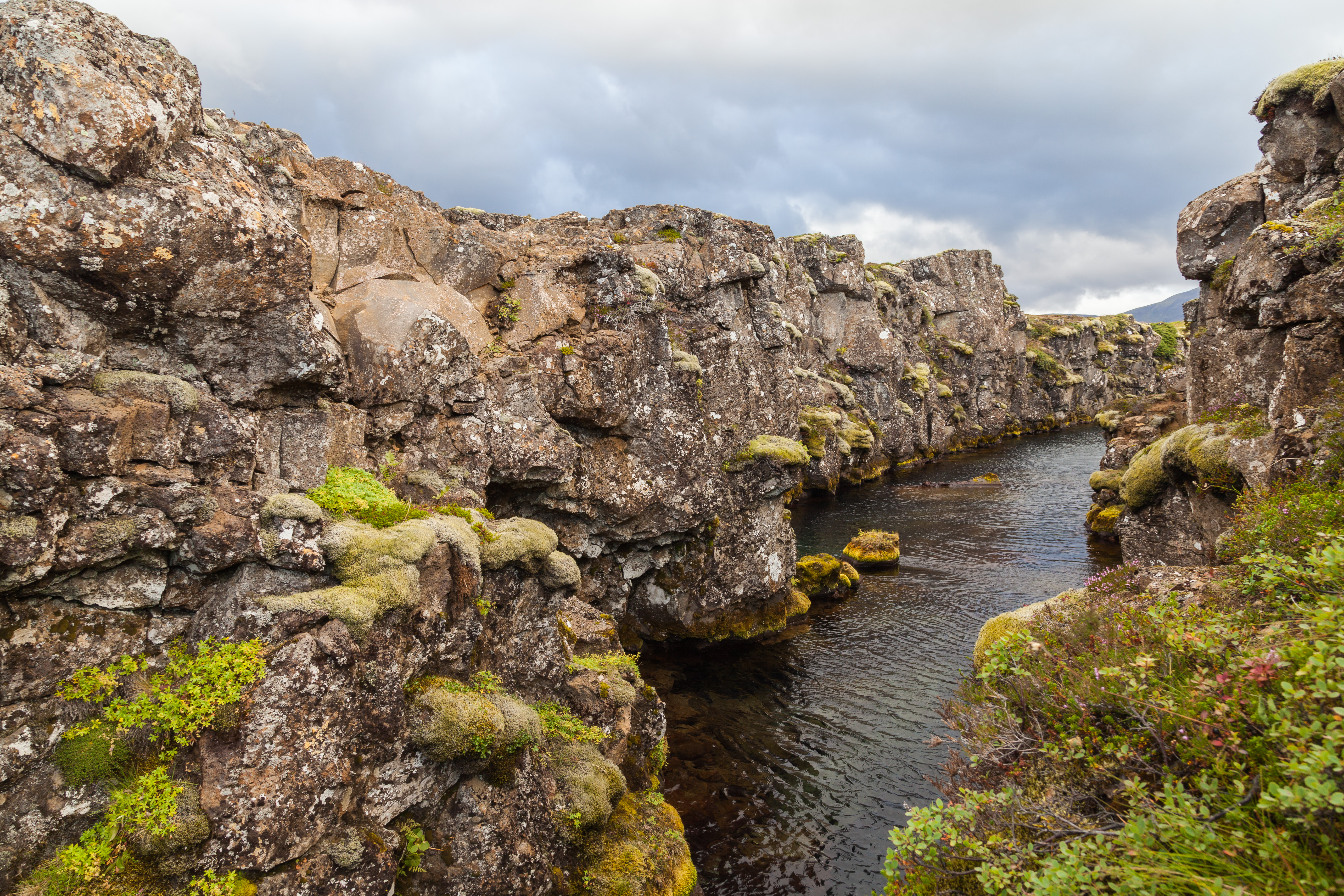 Nikulasargja canyon, Þingvellir National Park, Suðurland, Iceland